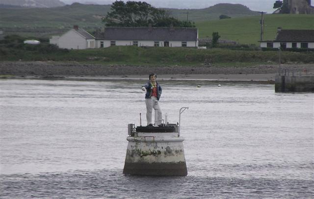 Metal Man, Rosses Point A freestanding, stone navigation beacon, erected 1821. Circular plan. Painted cast-iron statue of Royal Navy petty officer pointing on battered painted coursed ashlar limestone podium with moulded torus roll cut stone string course. Navigation light mounted to front of pedestal. Painted cast-iron access ladder set into channel formed in podium. Situated on Perch Rock between Rosses Point and Oyster Island. This figurative navigation beacon, cast in 1819 by Thomas Kirke in London, forms an important element of the maritime history of County Sligo. The sturdy construction of the podium attests to the high quality of the stone masonry while the cast-iron statue raises the interest of the beacon above the ordinary.